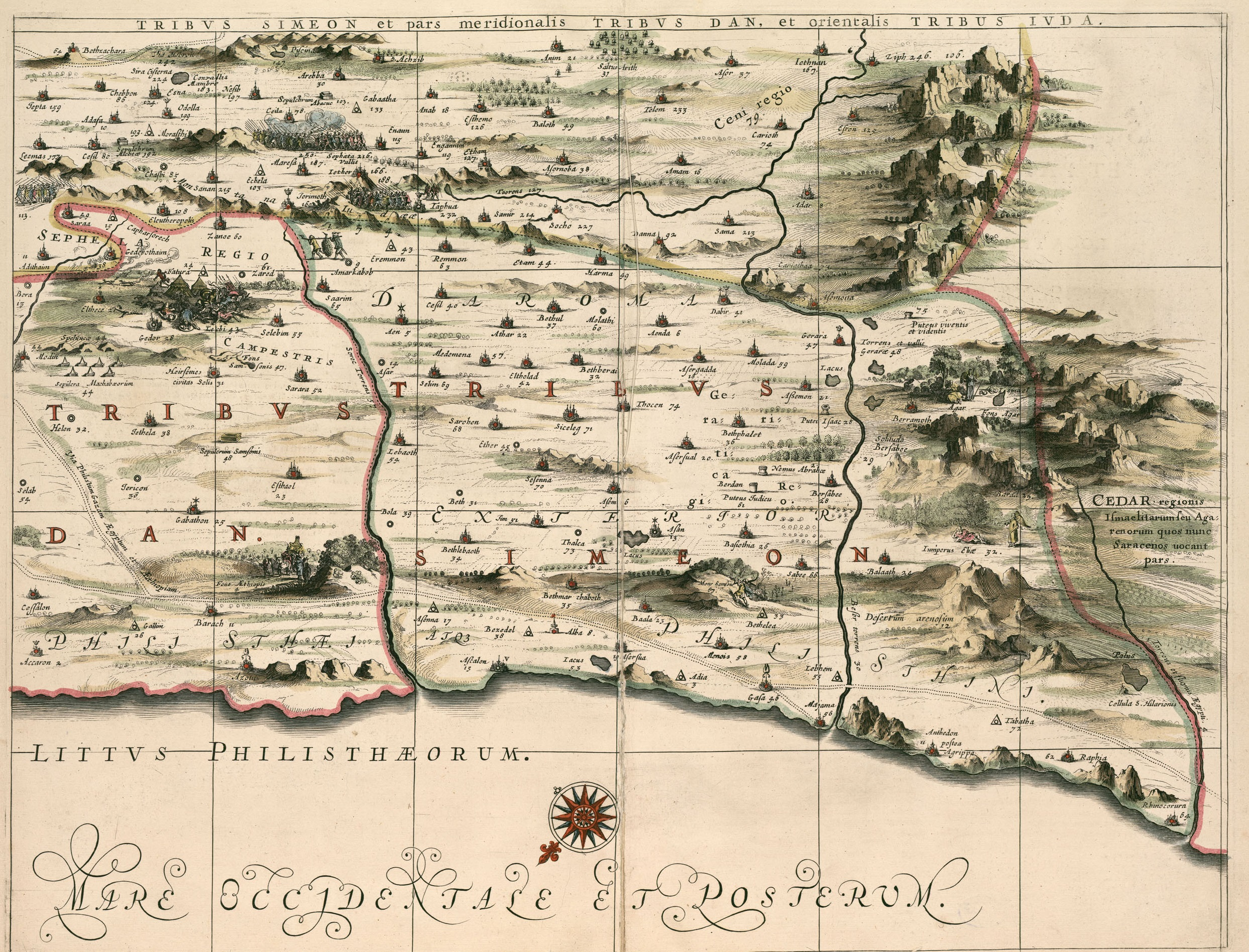 A map of a Tribe of Simeon. One of the twelve tribes of Israel from 1658